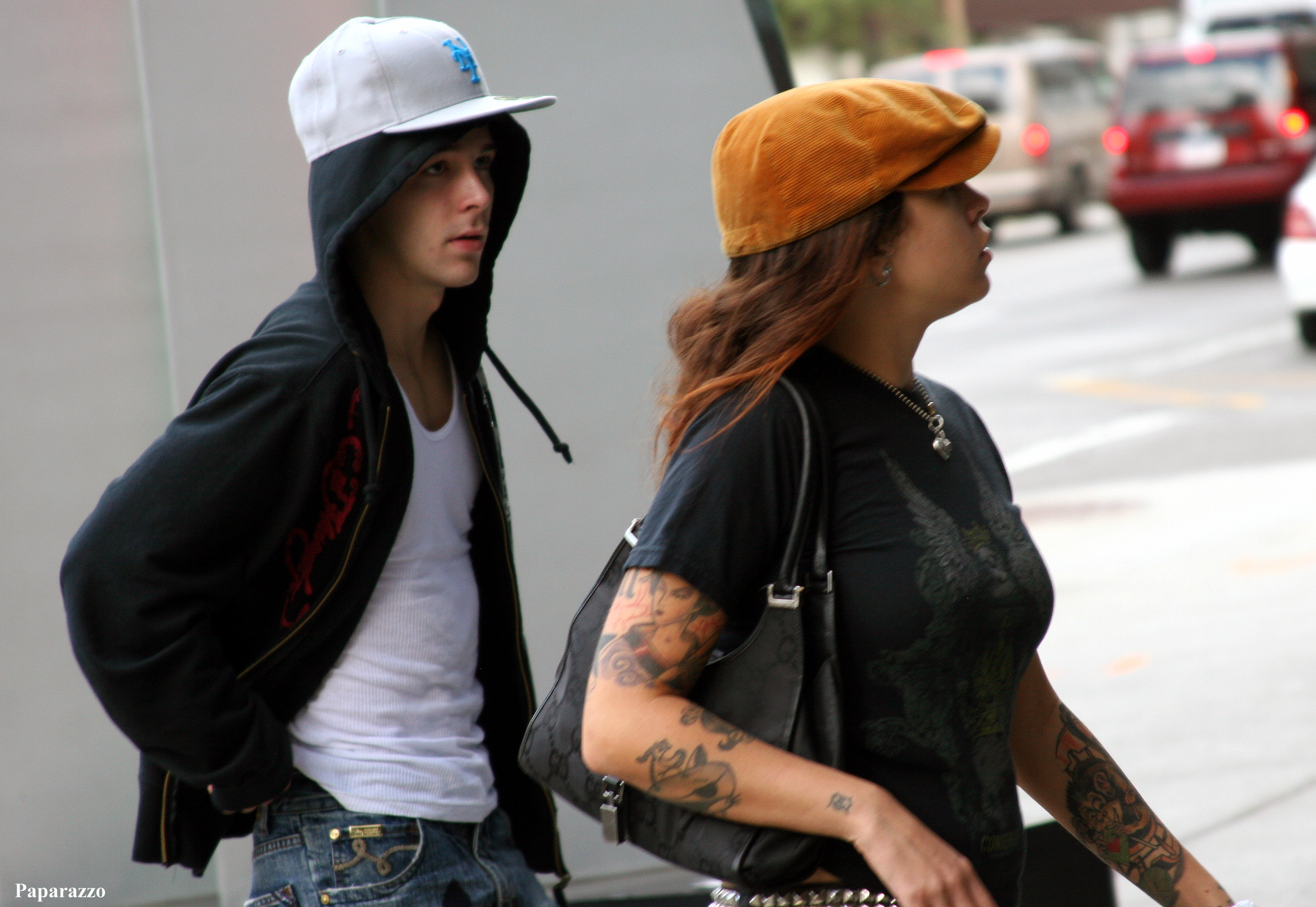 Bobby Edner leaving the offices of WEZB (B97) radio station in New Orleans, Louisiana following a live appearance with Varsity Fanclub on October 6, 2008